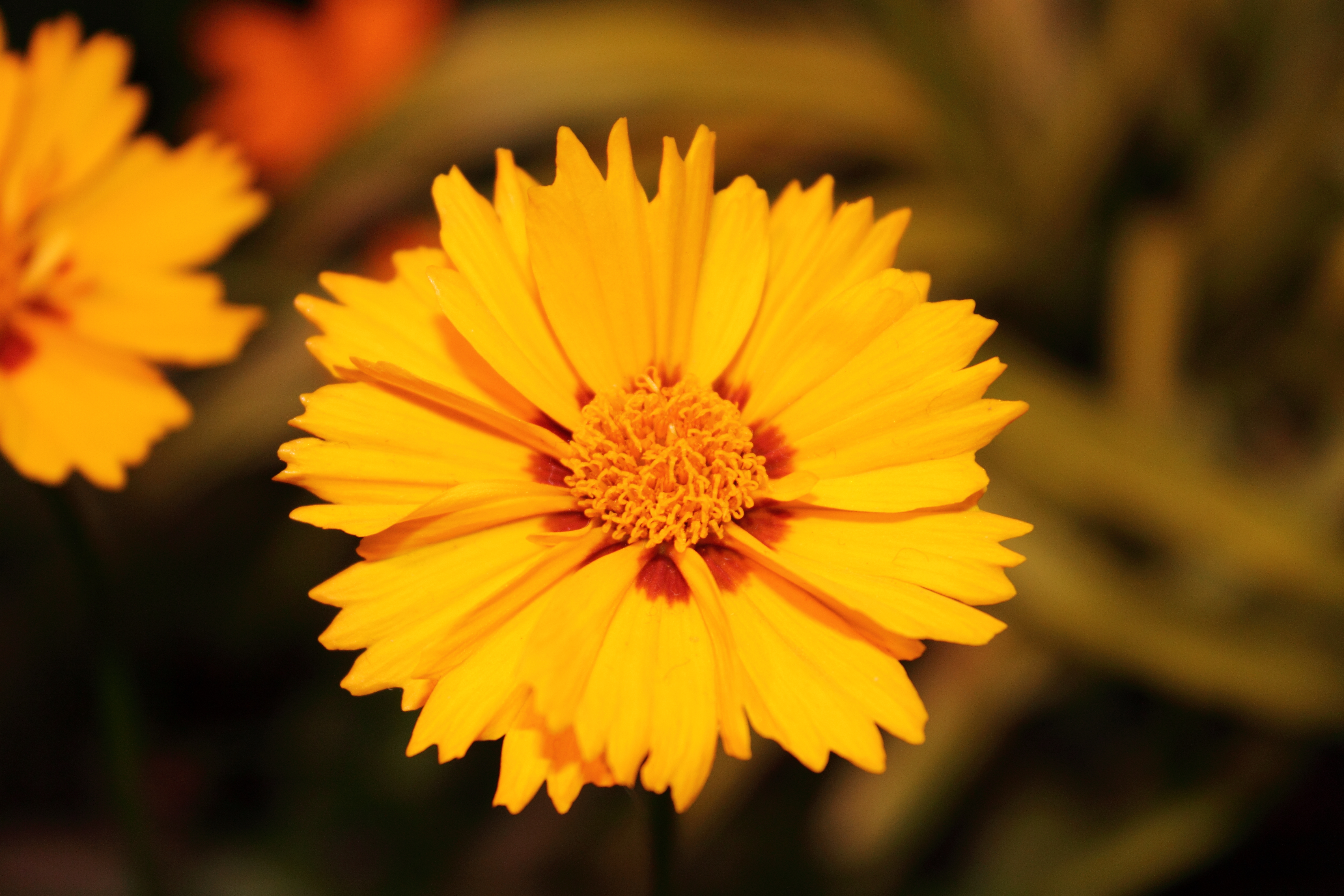 Coreopsis lanceolata en cultivar 'Little Sundial' taken at the 2010 New England Flower show in Boston, Massachusetts